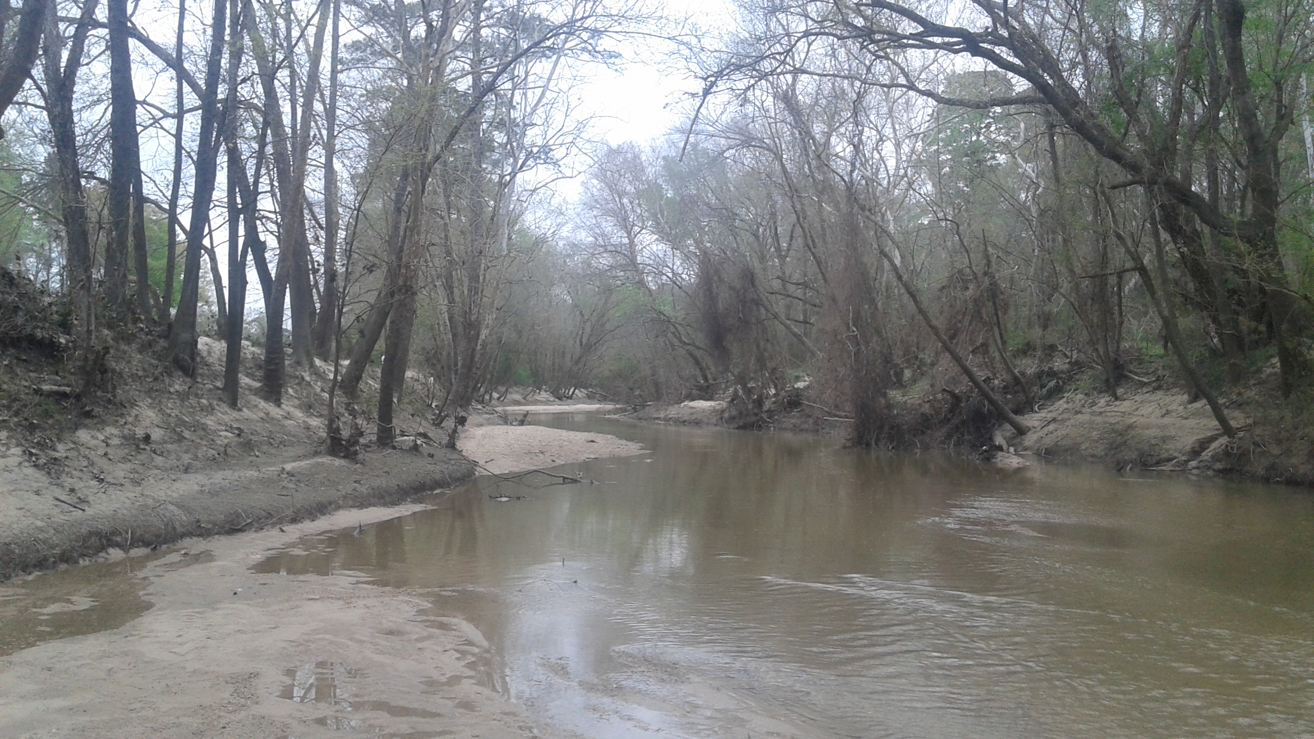 The West Fork of the San Jacinto River. View from McDade Park in Conroe, Texas.